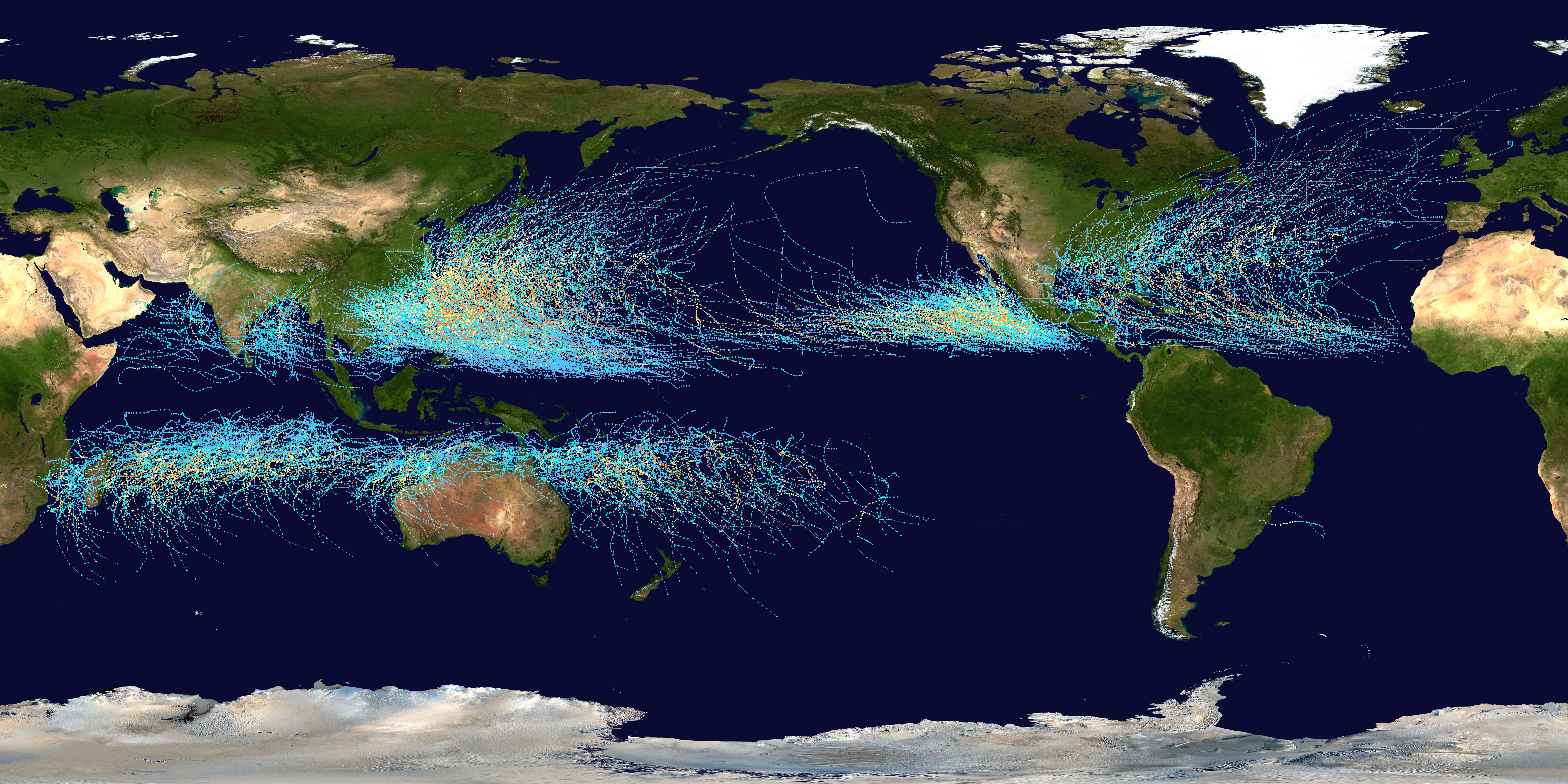 This map shows the tracks of all Tropical cyclones which formed worldwide from 1985 to 2005. The points show the locations of the storms at six-hourly intervals and use the color scheme shown to the right from the Saffir-Simpson Hurricane Scale.